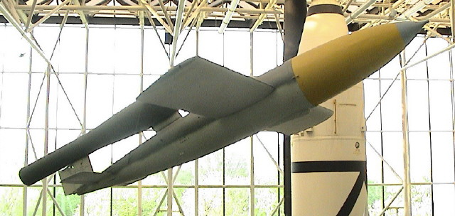 Flying Bomb at National Air & Space Museum. (del) (cur) 04:25, 25 May 2004 . . Kowloonese (Talk) . . 640x304 (74271 bytes) (Flying Bomb at National Air & Space Museum)